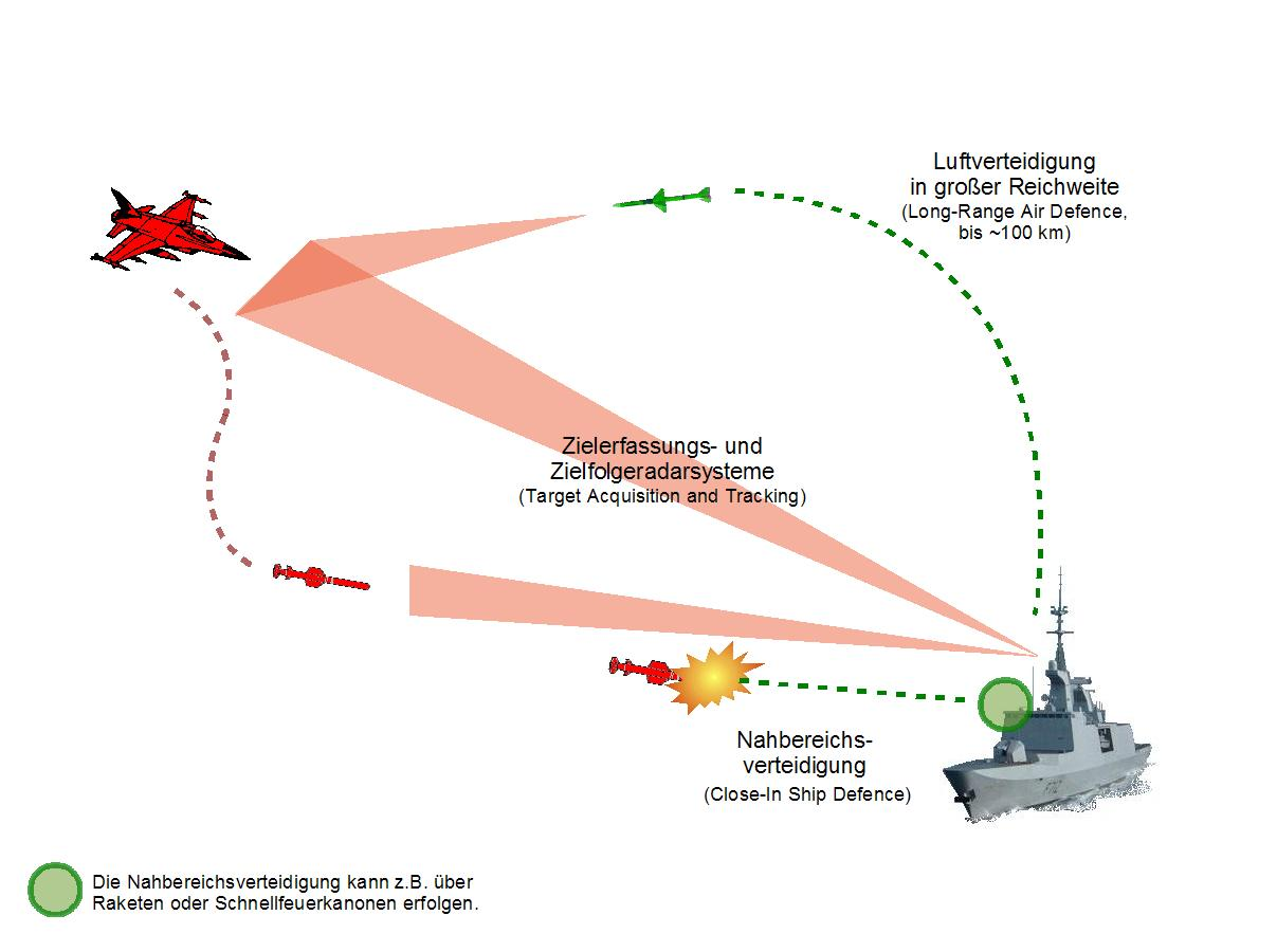 Ship Air Defence (german version)